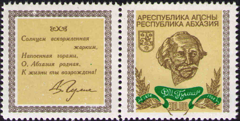 Dmitry Gulia on an Abkhazian stamp.